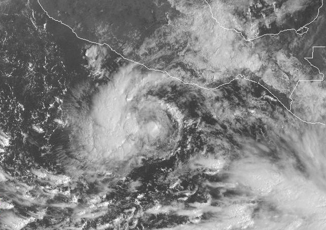 Tropical Depression Fifteen-E photographed in visible light by GOES East Pacific Floater 1, at 1445Z on 4 October